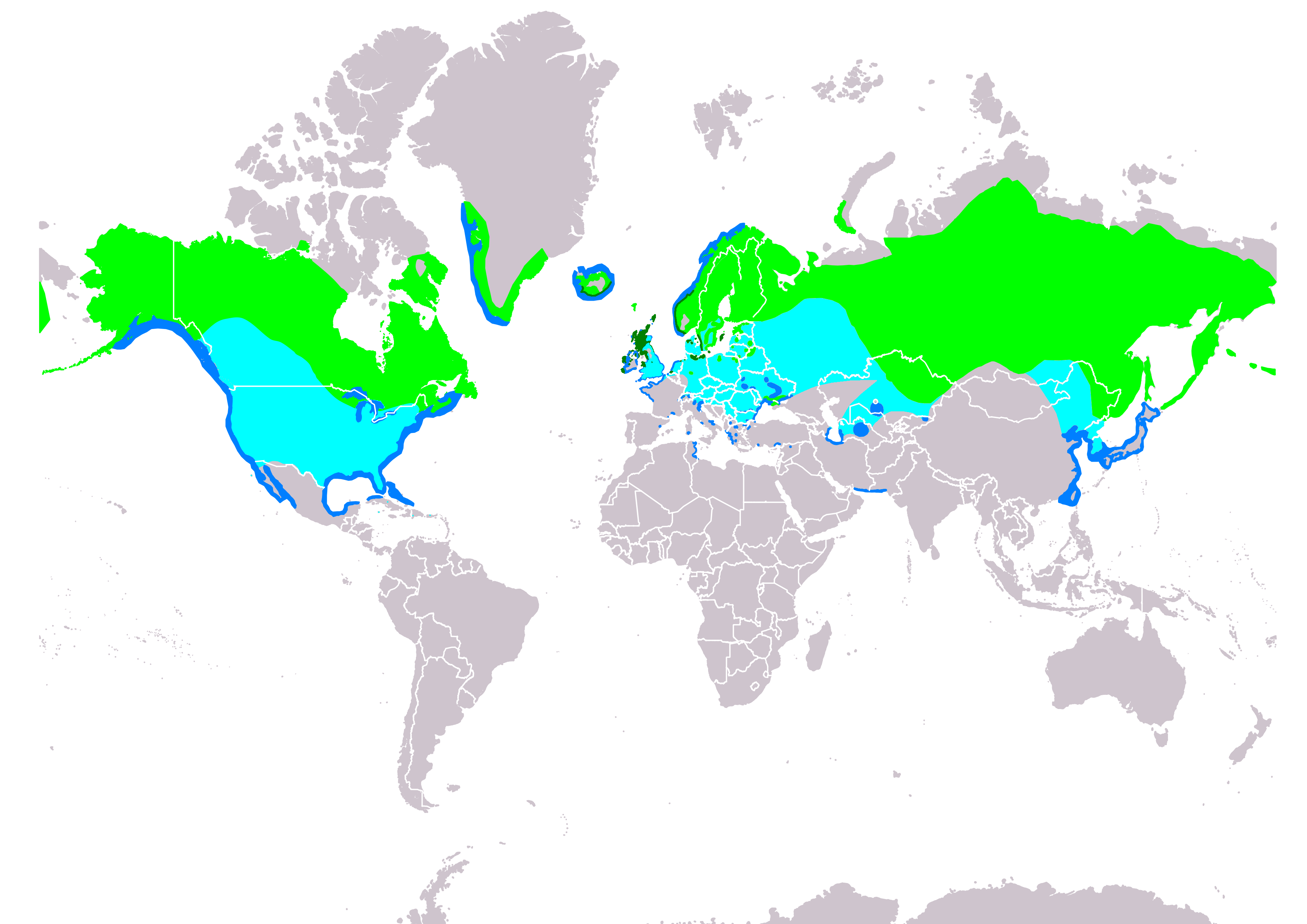 Map of red-breasted merganser (Mergus serrator) according to IUCN version 2018.2 , Legend: Extant, breeding (#00FF00), Extant, resident (#008000), Extant, passage (#00FFFF), Extant, non-breeding (#007FFF)